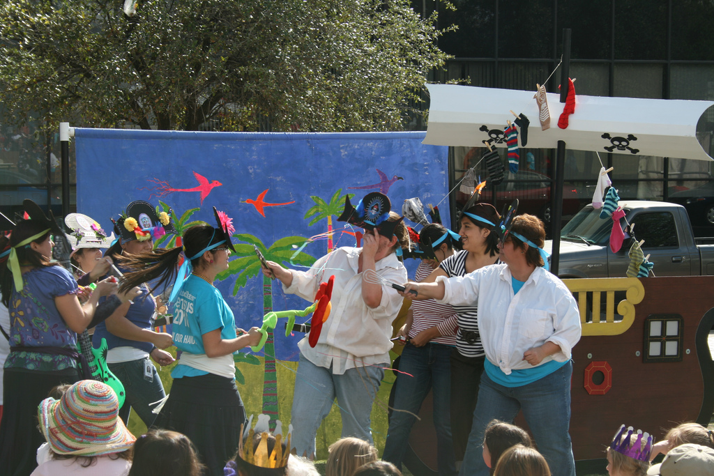 Skip performed at Story Town